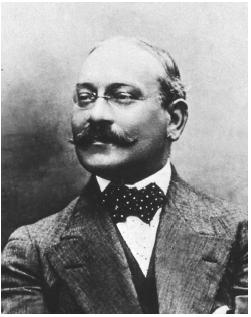 Portraite of Louis Feuillade.